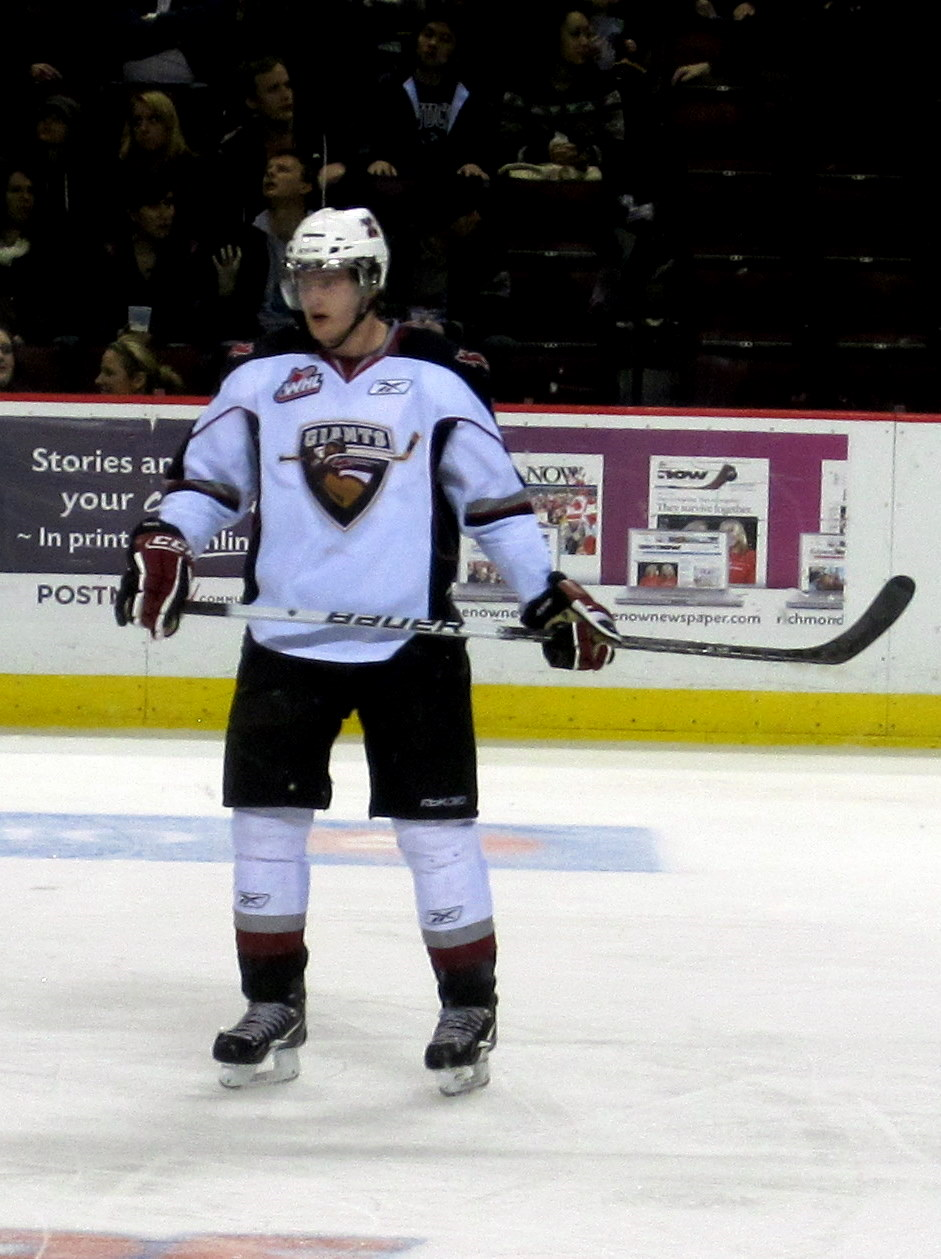 Vancouver Giants defenceman David Musil during a game against the Chilliwack Bruins on March 9, 2011.